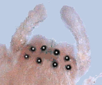 Digitally processed photo of Chiracanthium inclusum showing the eye pattern characteristic of this genus.